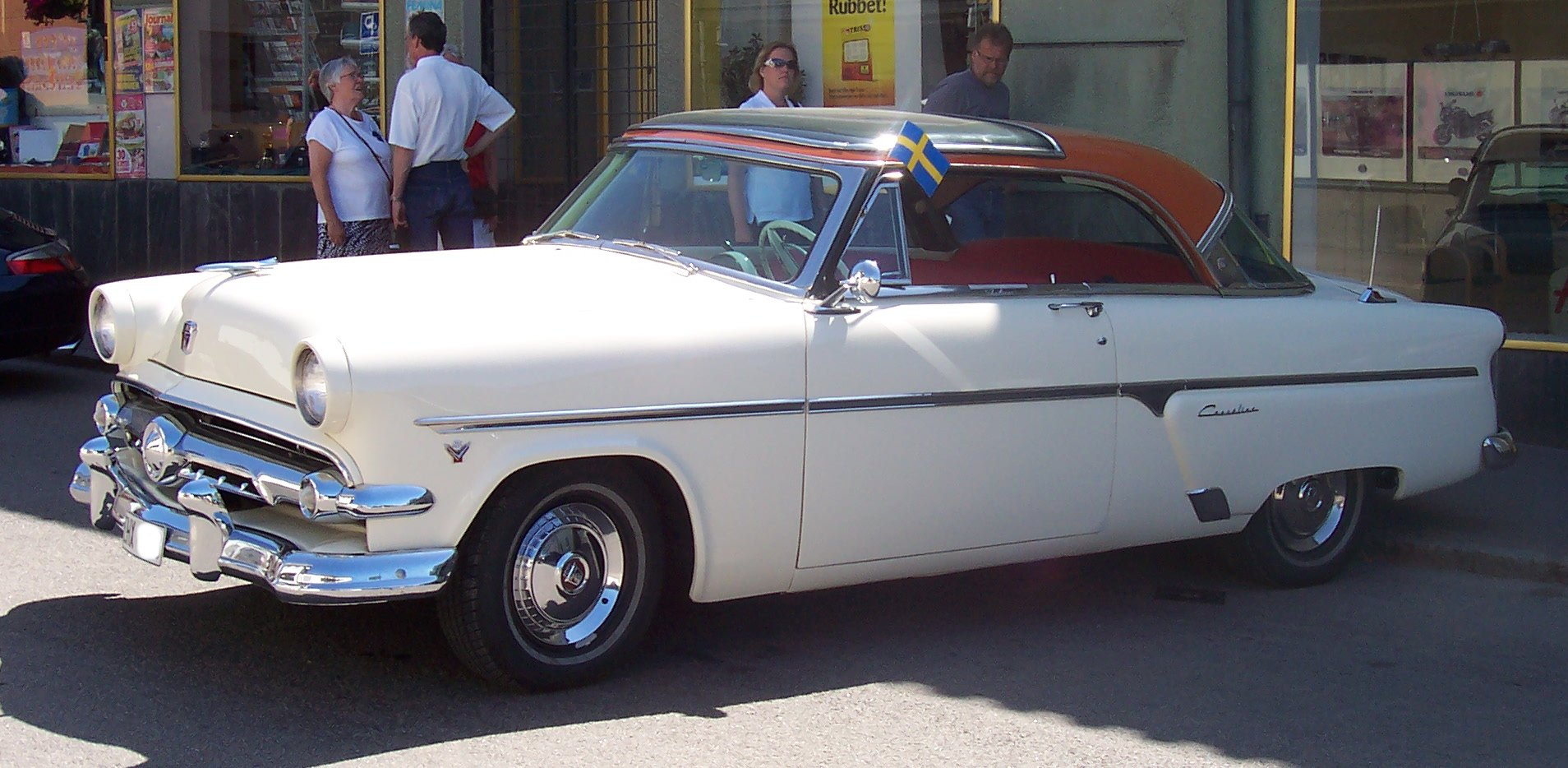 1954 Ford Crestline SkylinerThe bubble top Skyliner was a new addition to the ‘54 Crestline range. At $2241, the price was the same as for the Sunliner convertible and some five per cent more than the regular Victoria hard top. The Skyliner, with its green tinted plexiglass top over the driver’s seat, was very popular in its first year, with 13,144 cars sold.